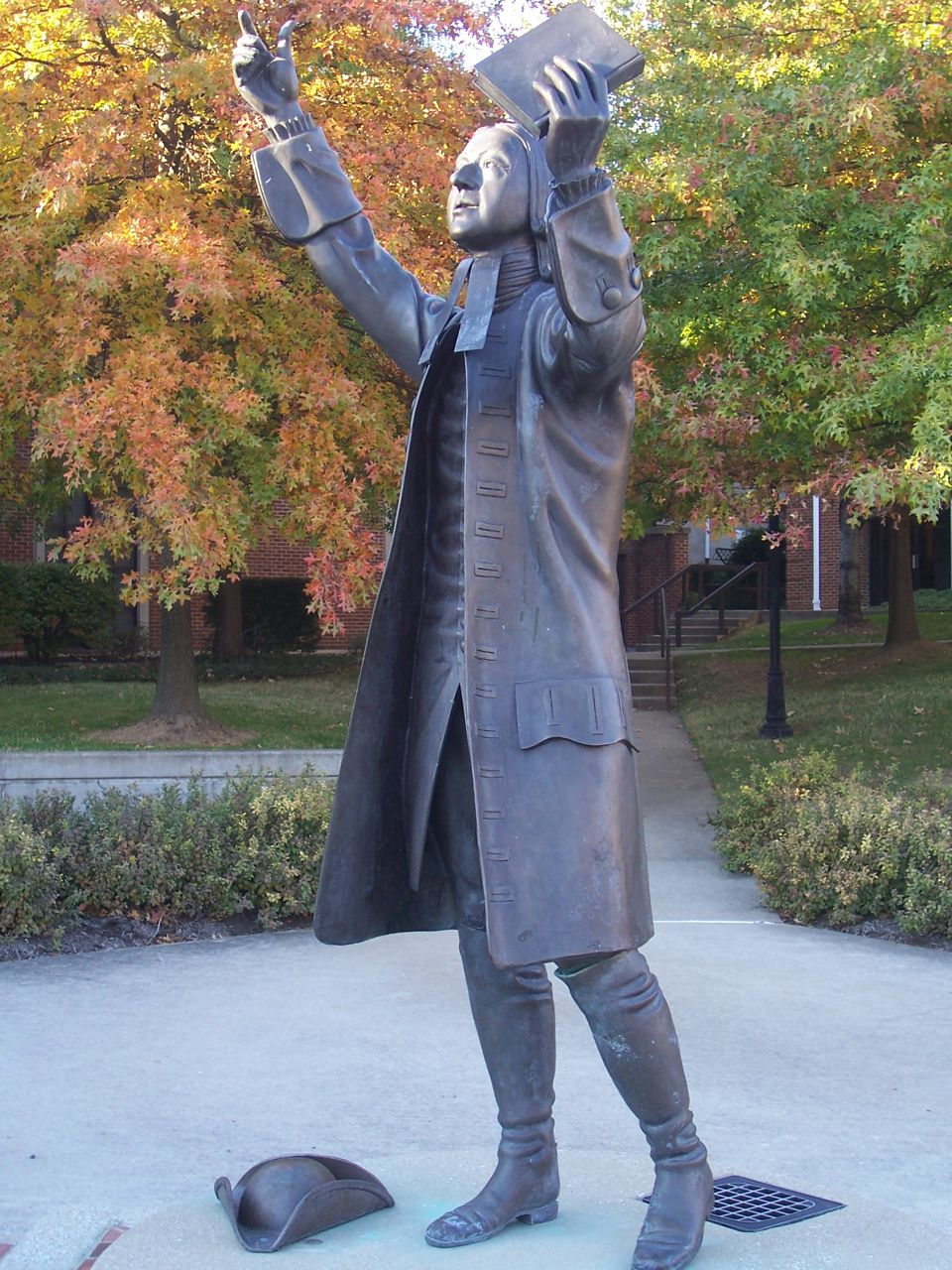 Life-size statue of John Wesley on the campus of Asbury Theological Seminary in Wilmore, KY, USA.